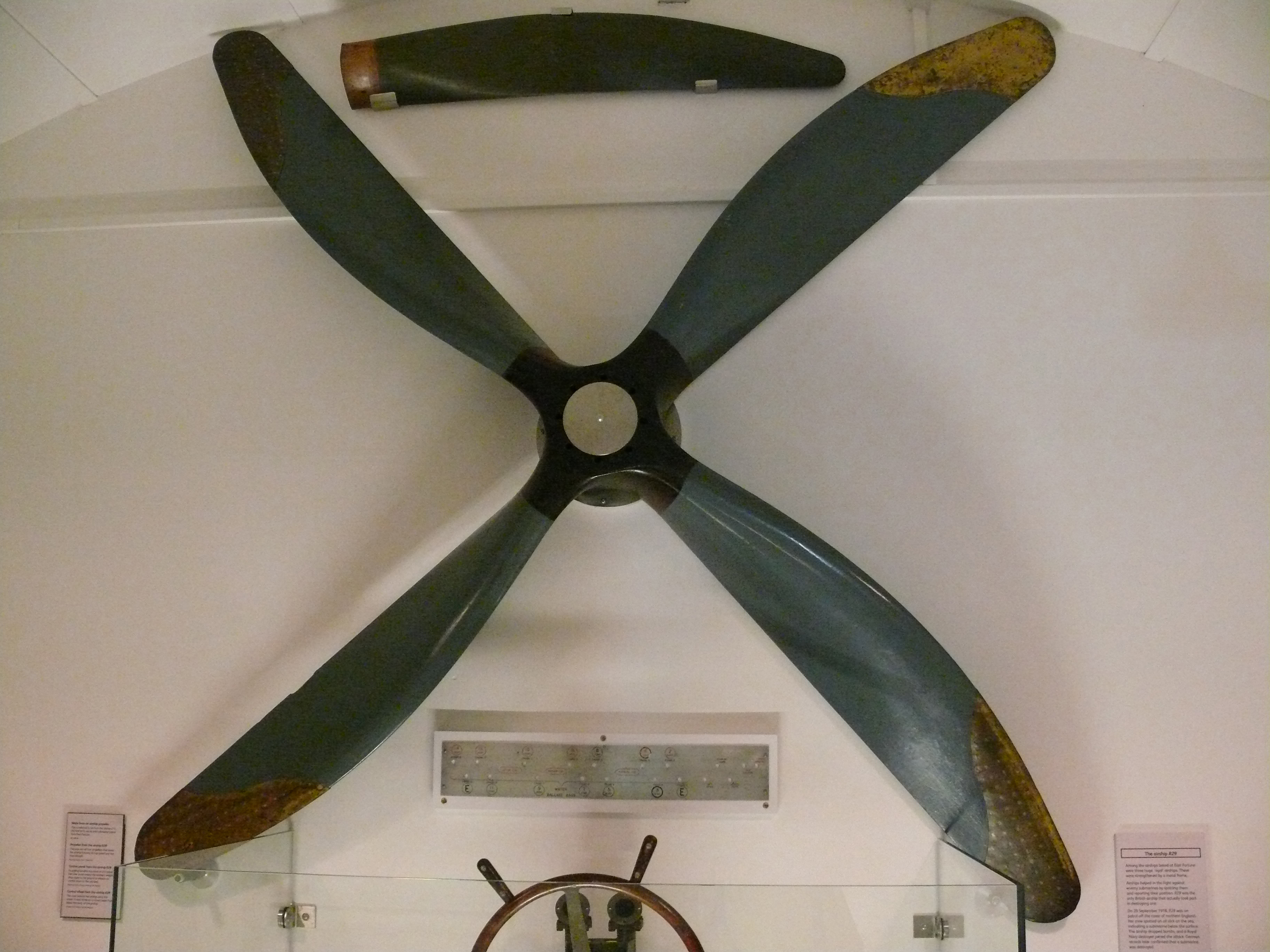 Propeller of R-29, a British R23X class rigid airship of World War I, in the National Museum of Flight in East Fortune, East Lothian, Scotland. R-29 was based at the East Fortune RNAS airship station in 1918.